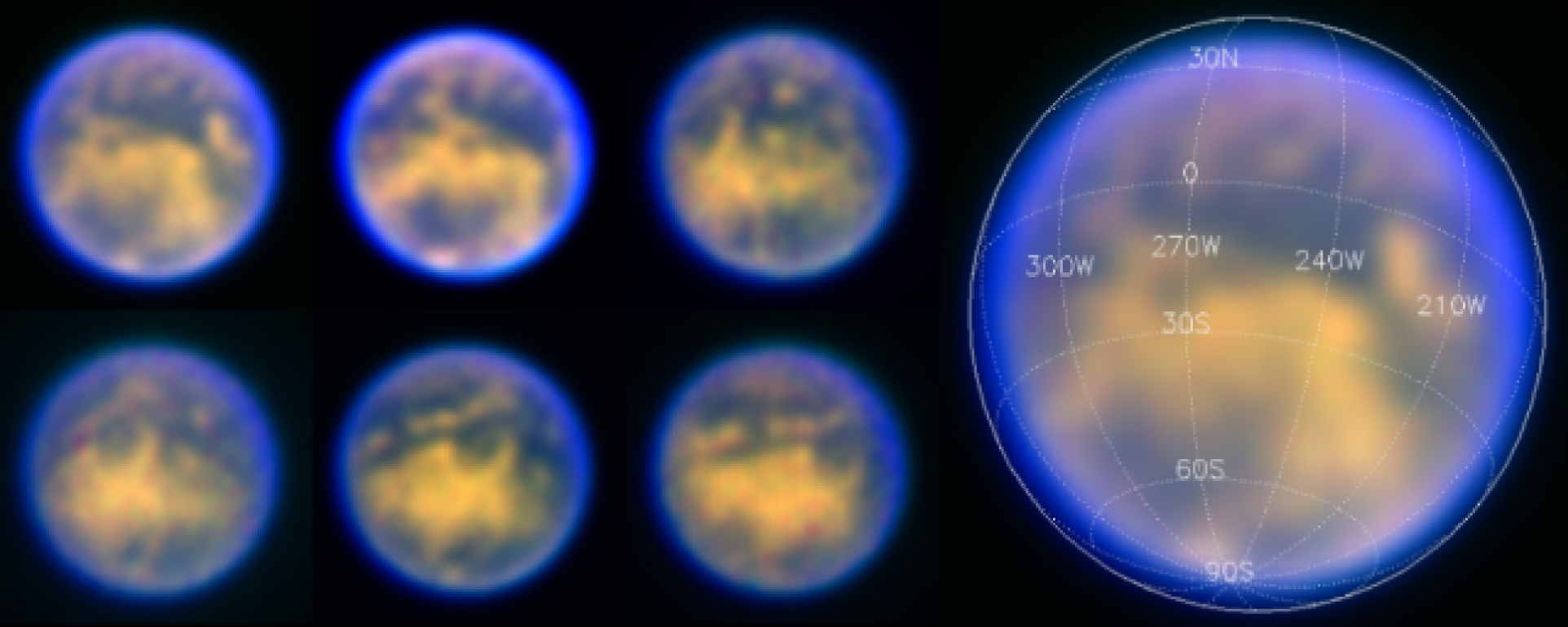 Views of Titan, obtained on six nights in February 2004. At the right, the image from the first night (February 1-2, 2004) has been enlarged for clarity and the coordinate grid on Titan is indicated. The images are false-colour renderings with the three SDI wavebands as red (1.575 μm; surface), green (1.600 μm; surface) and blue (1.625 μm; atmosphere), respectively.